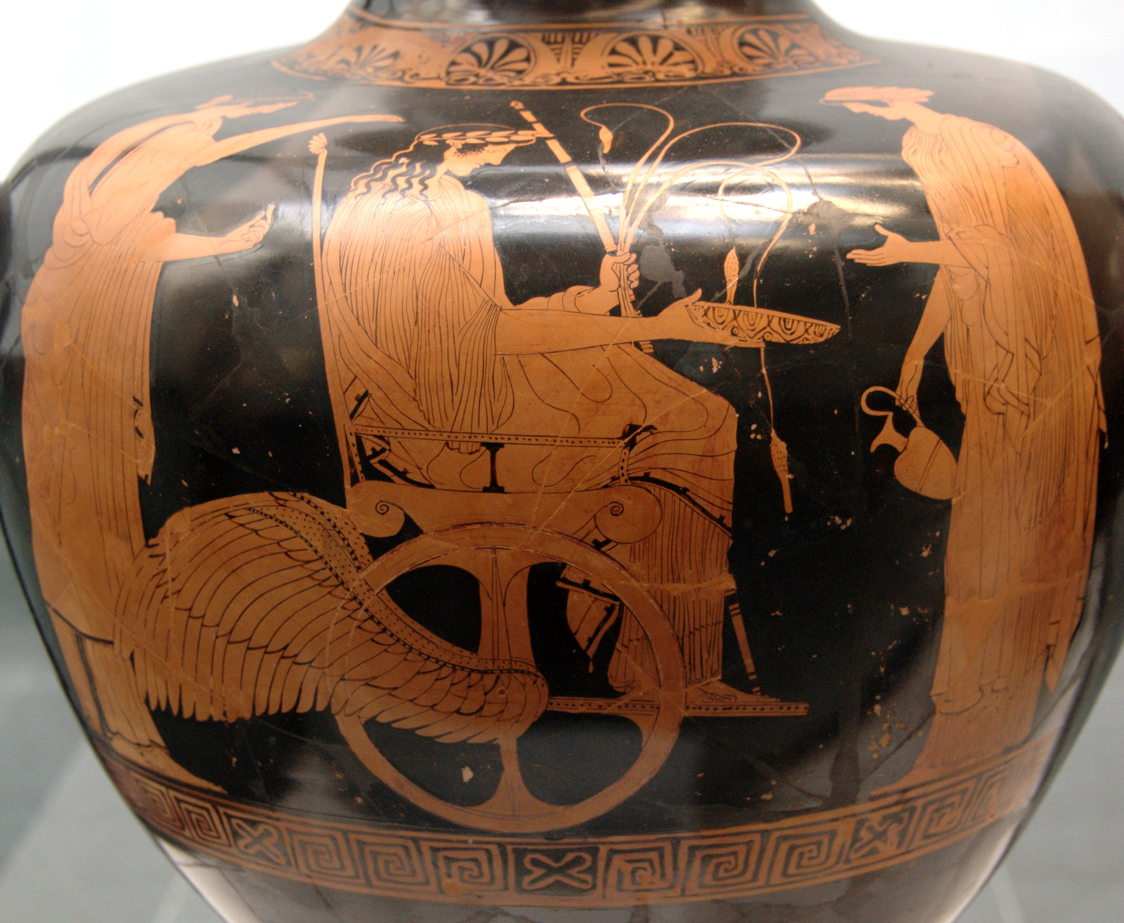 Triptolemus' departure. Attic red-figure hydria, 450–440 BC.